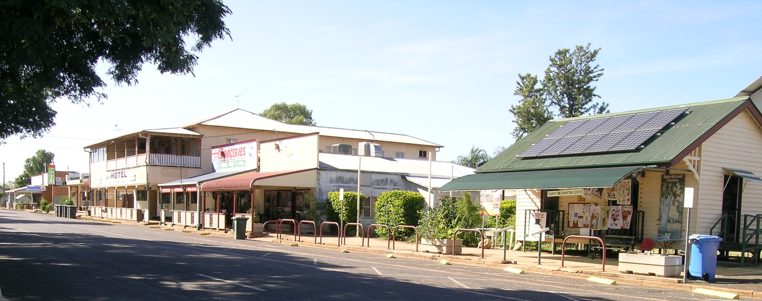 The main street of Alpha, QLD. [Shakespeare Street]